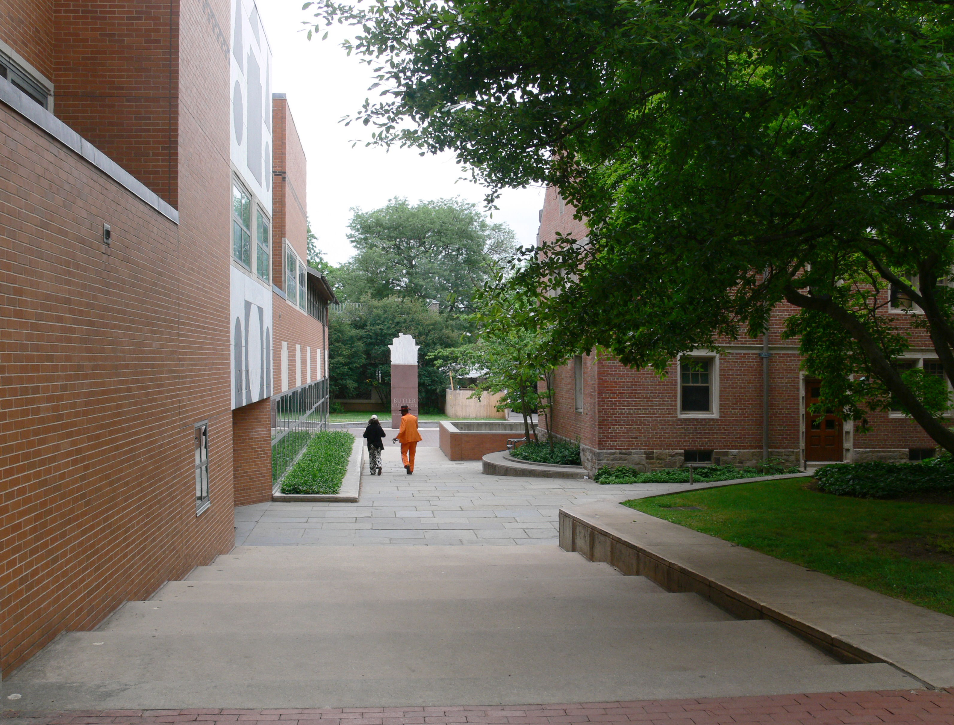 Butler College: "Wu Hall" (left; built by architect Pritzker price laureate Robert Venturi '47, donated by Gordon Wu '58) and "Class of 1915 Hall" (right) Princeton University, Princeton, NJ